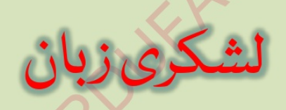 Lashkari Zabān title in Nastaliq script